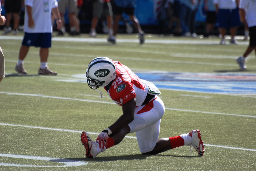 Leon Washington at the 2009 Pro Bowl